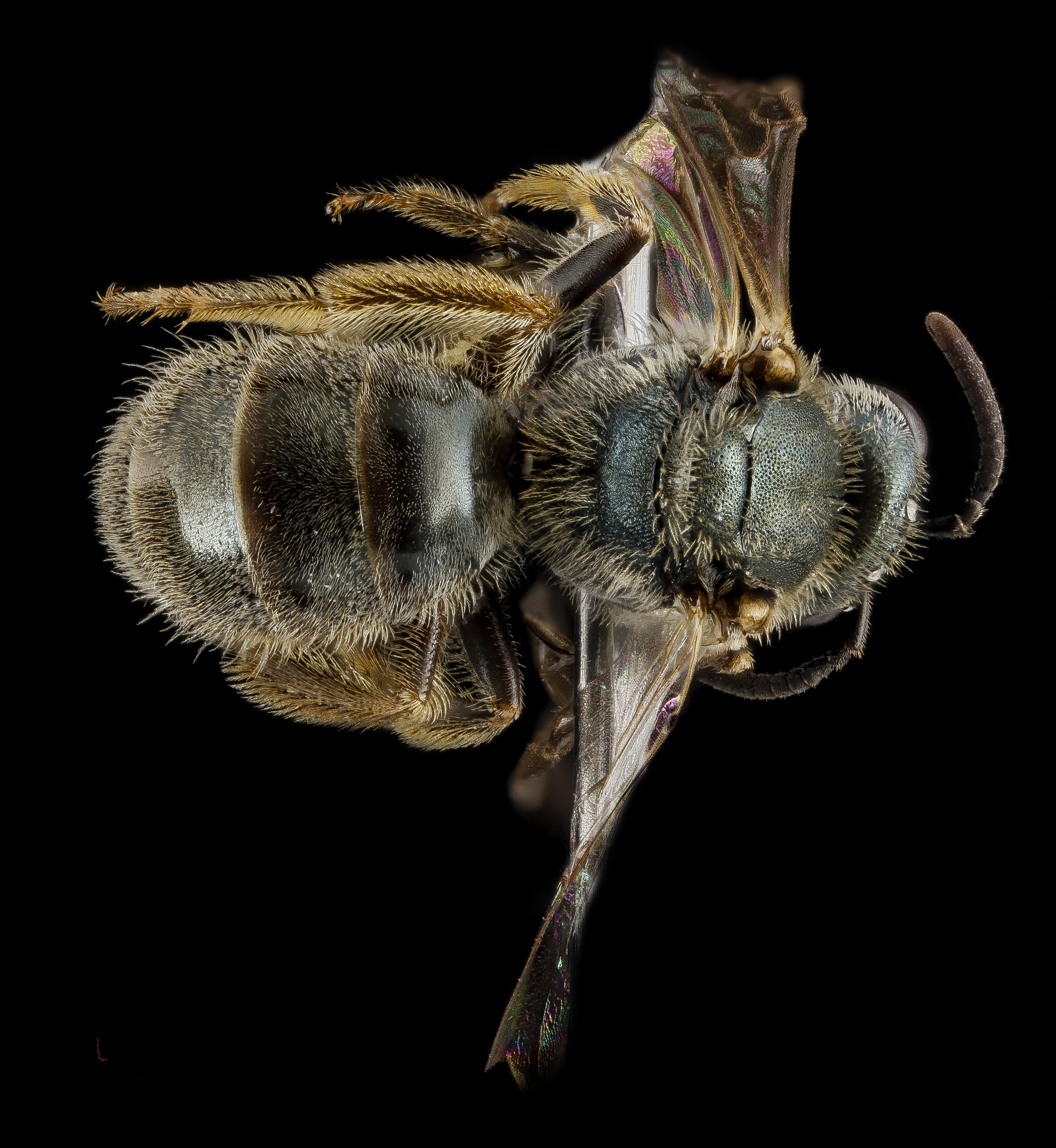 One of the many tricky to identify Dialictus bee species, this from the lovely Cumberland Island National Seashore. Cumberland Island having many interesting species and worthy of much more exploration. Photo taken by Kamren Jefferson